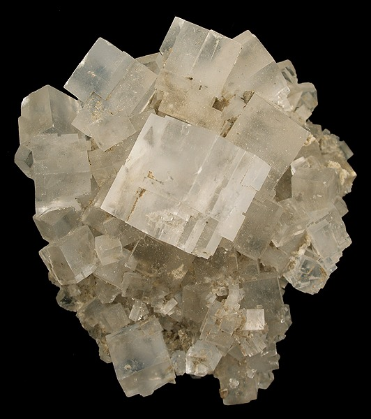 Halite Locality: Wieliczka Mine, Wieliczka, Małopolskie, Poland (Locality at ) Size: 7.2 x 7.0 x 4.1 cm. Here is a specimen-grade example of salt in its native crystallized form. The piece has sharp crystals to 2 cm of halite, from the biggest and most classic underground salt mine in the world. It is a beautiful piece, complete-all-around. These transparent crystals have been known for hundreds of years and shown in books as far back as mineralogy was written down, and today remain a classic of the hobby - though seldom seen on the market. Ex. Harold Urish Collection.